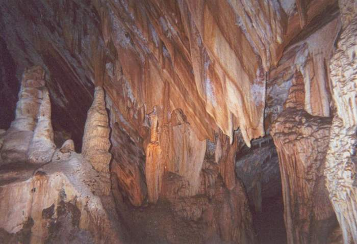 Jenolan caves in NSW, Australia. in the cave called the 'cathedral'. I took the photo Cfitzart 03:40, 30 August 2005 (UTC)